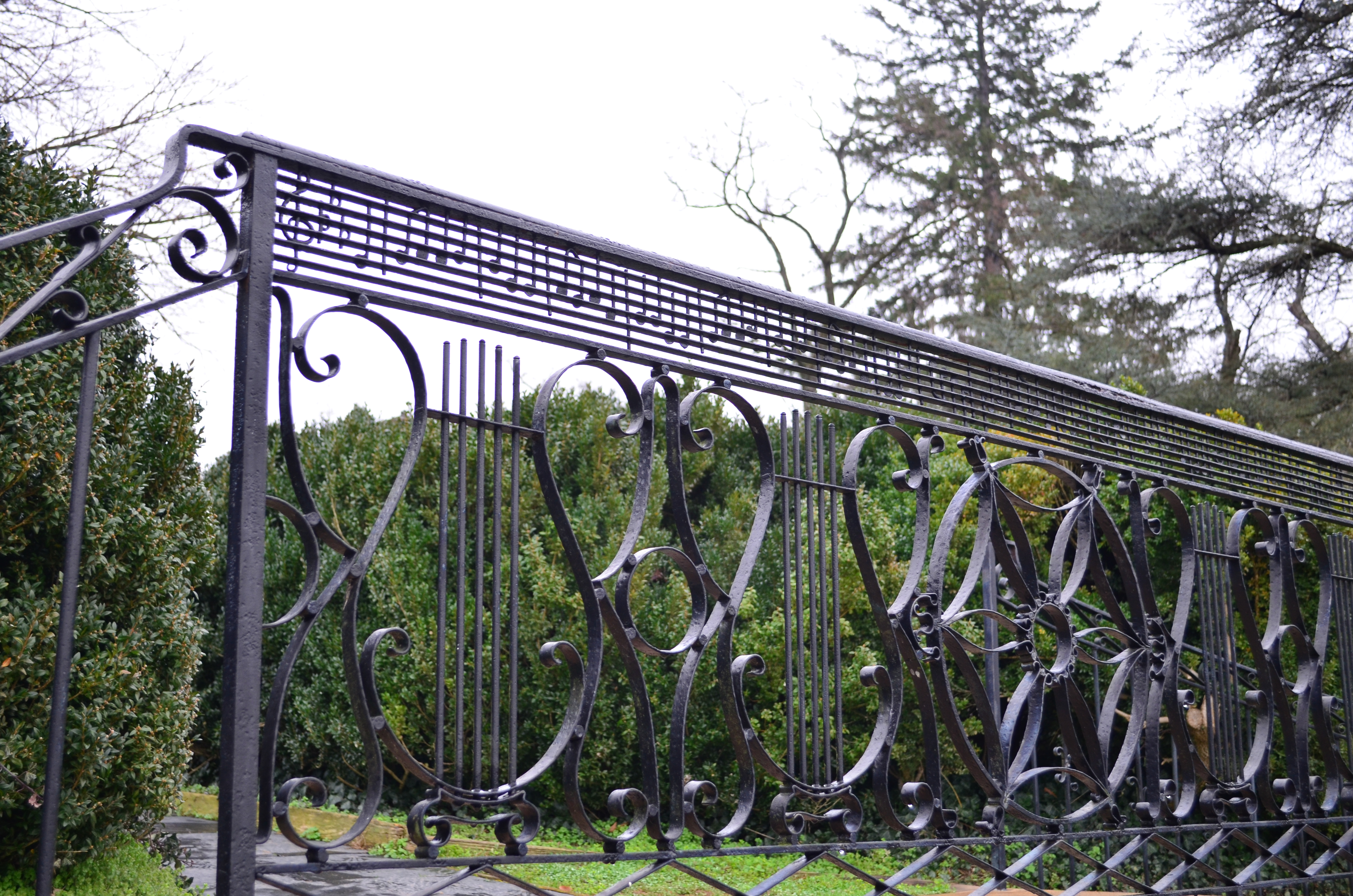 The melody of the song "Home Sweet Home" can be found on this wrought iron railing at Chatham Manor, part of Fredericksburg and Spotsylvania National Military Park in Virginia.